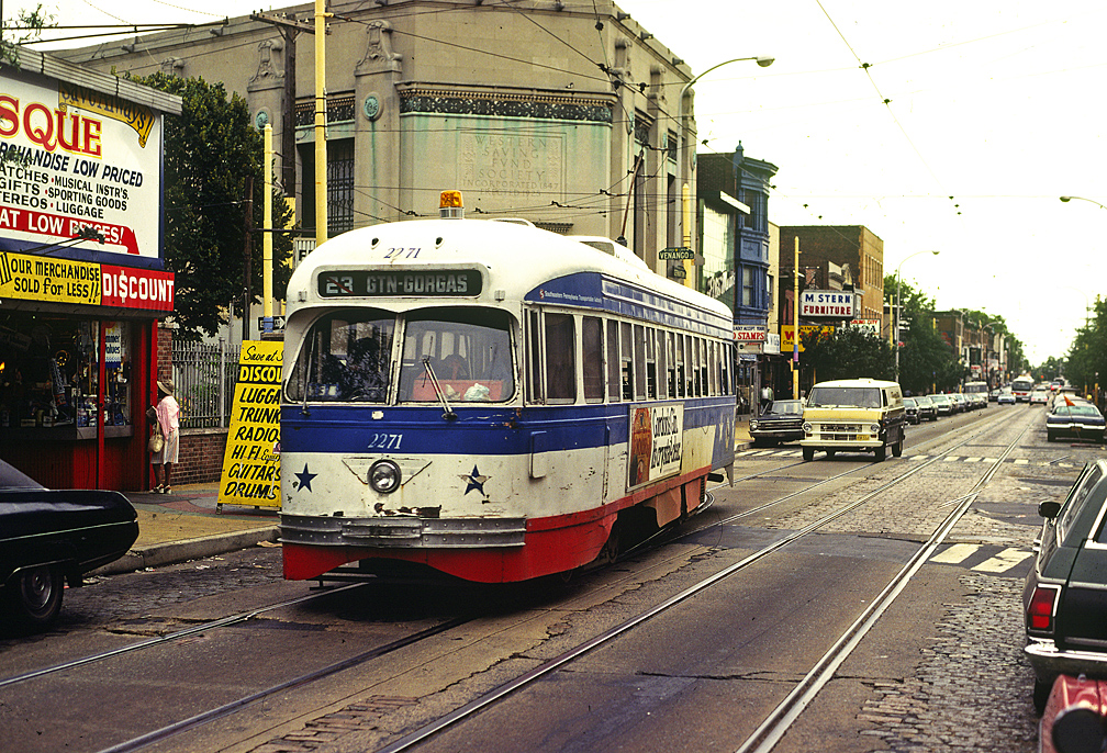 SEPTA (Philadelphia) PCC-type streetcar 2271 (ex-Kansas City), northbound on Germantown Avenue at Venango Street, on a route 23 short-turn trip (with red slash through the route number). It is bound for Gorgas Lane loop, in August 1980.